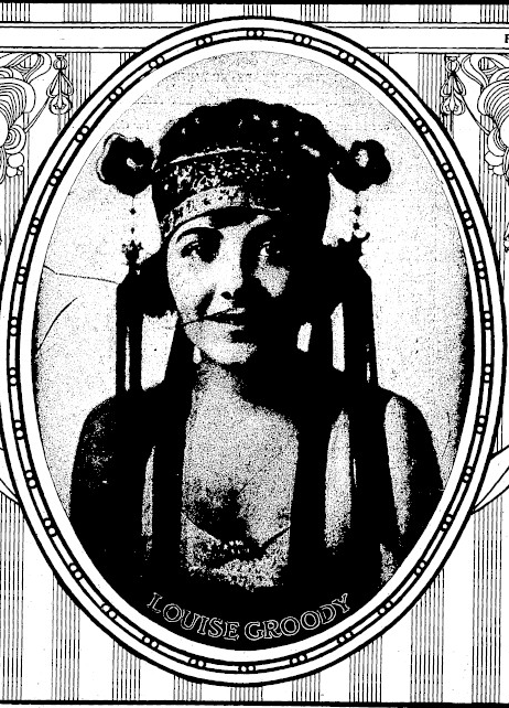 Louise Groody, 1920